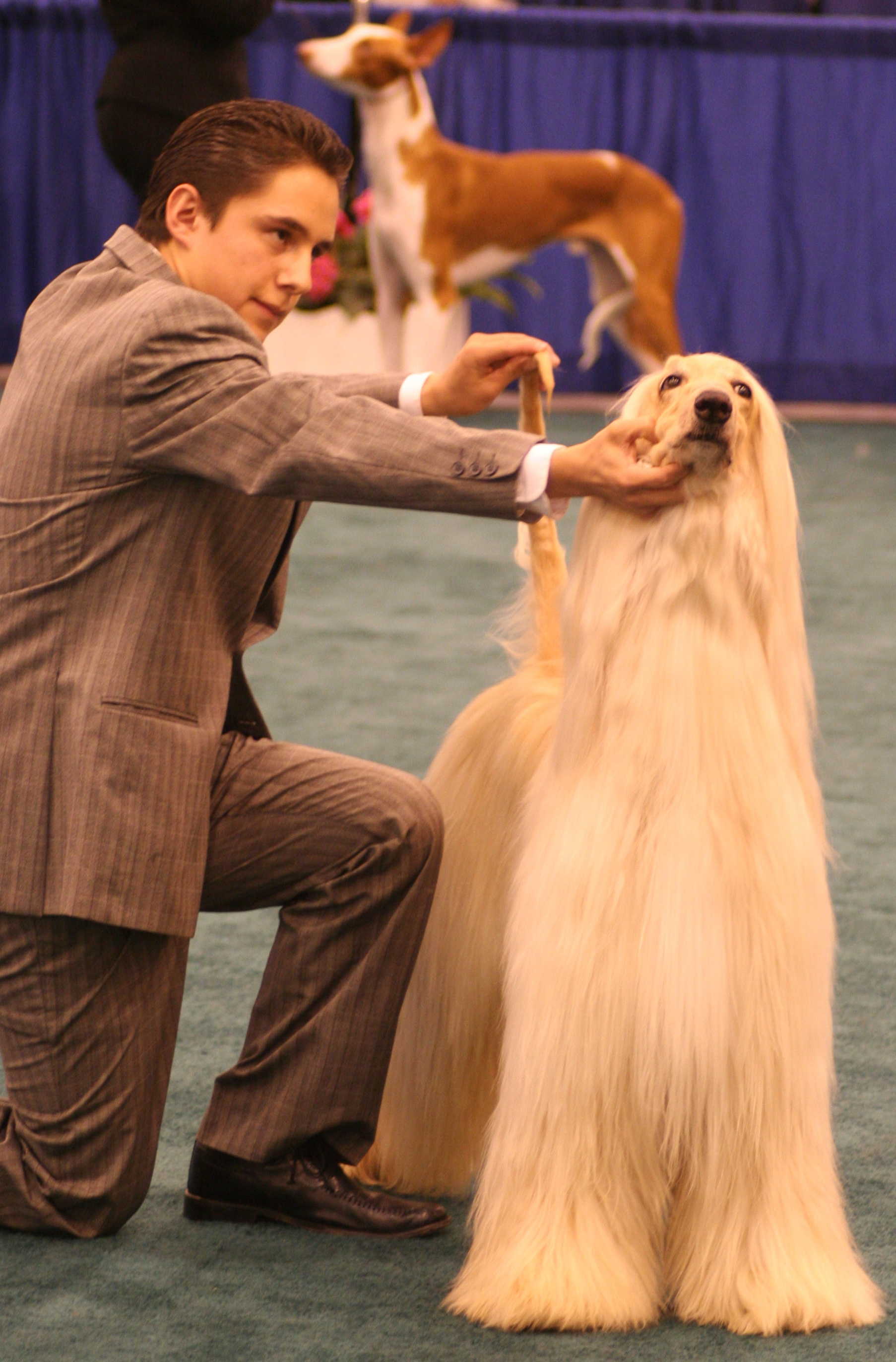 An Afghan Hound with its handler in a conformation show (the American Kennel Club World Series Dog Show, July 2006), the Reliant Arena, Houston. The dog in the background (blurry) is an Ibizan Hound.